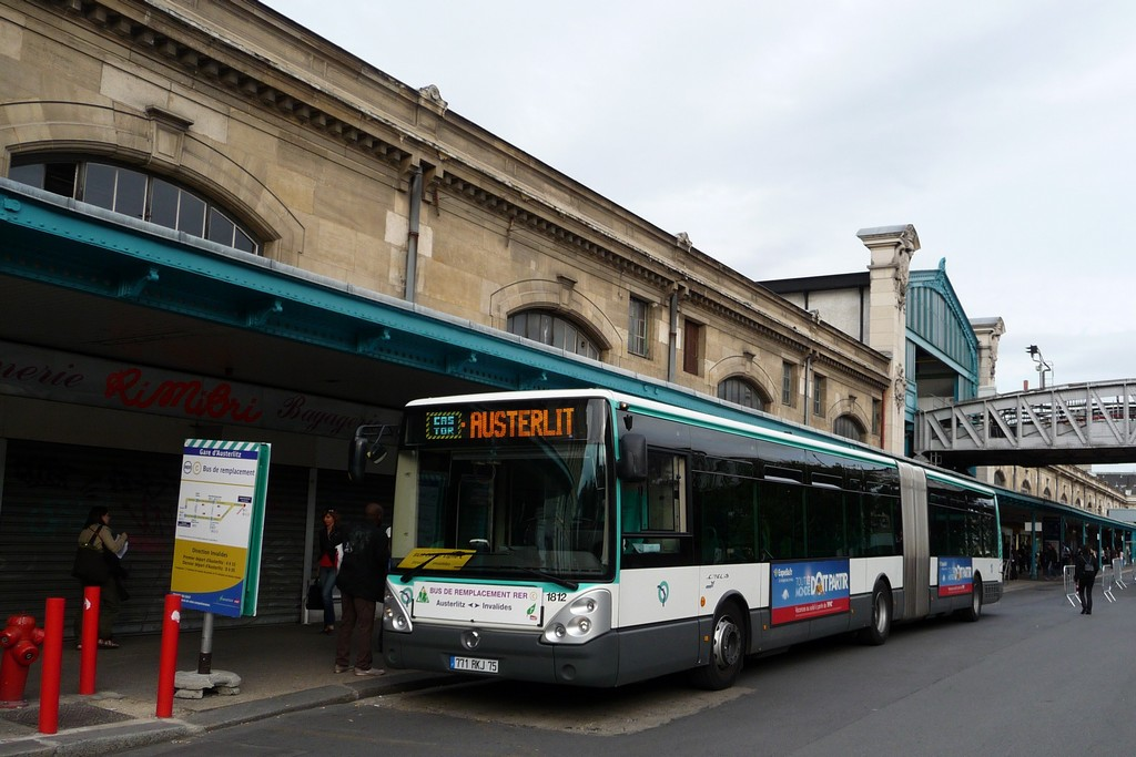 Citelis 18 on "Castor" at Gare d'Austerlitz